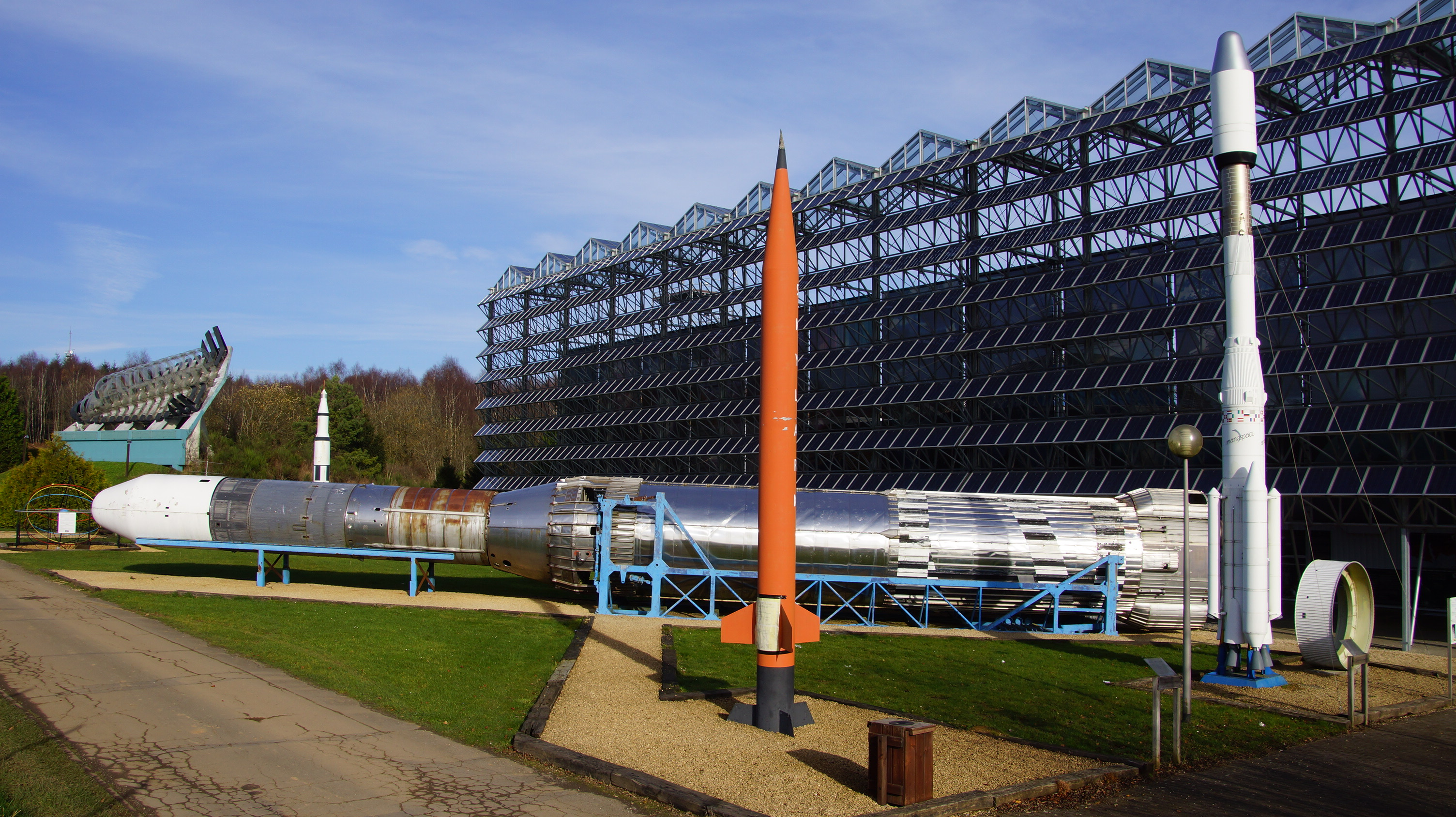 Euro Space Center in Belgium